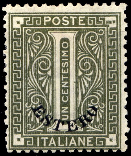 Italy, offices abroad. Numeral of definitive issue overprinted 'ESTERO' in black, 1 centesimi olive green, mint. White wove paper with 'Imperial Crown' watermark. Perforated 14.0 x 14.0. Typography printing by the Italian state printing offices in Turin. Three dots in upper right corner variety, Sassone type D.